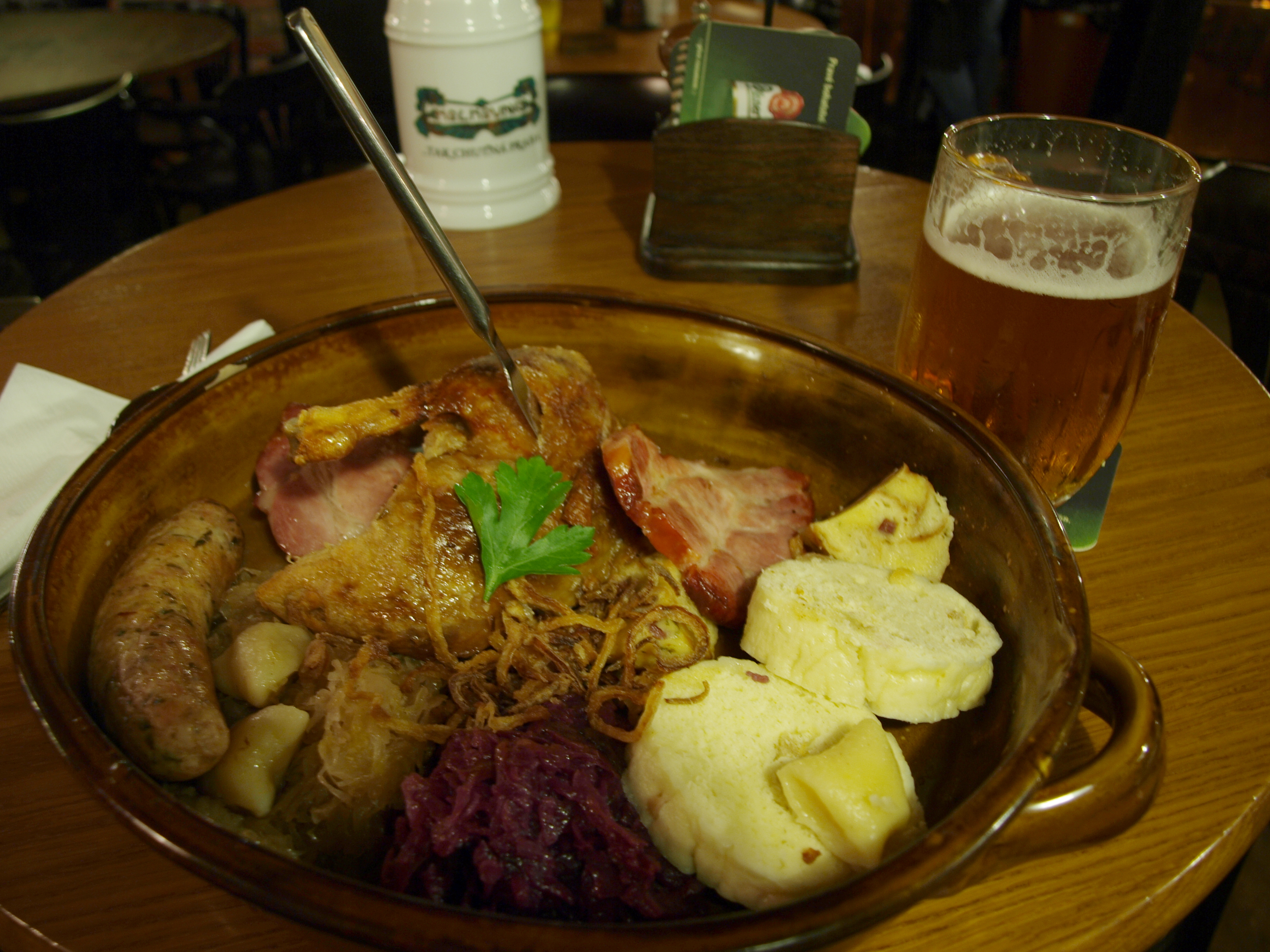 A meat selection dish at restaurant Kolkovna, Prague, Czech Republic.